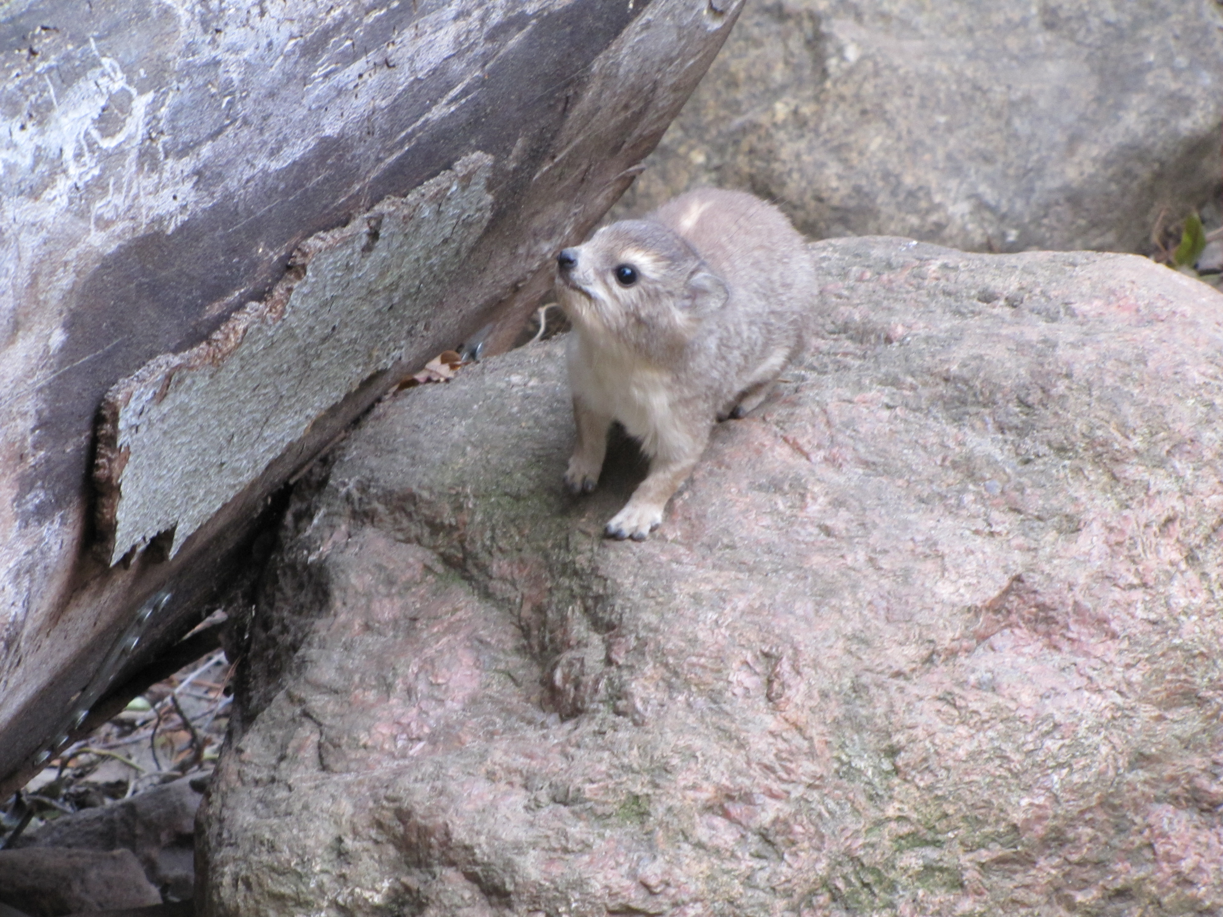 Young Yellow-spotted Rock Hyrax aka Bush Hyrax (Heterohyrax brucei) in Zoo Cottbus